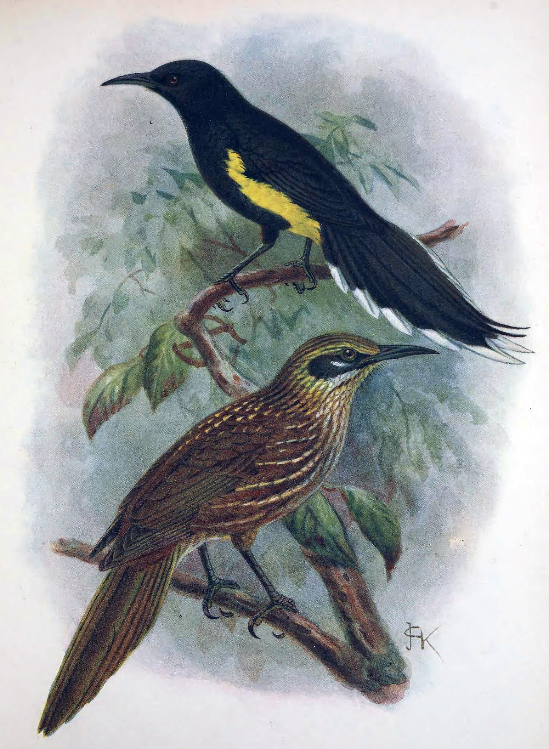 Oʻahu ʻŌʻō (Moho apicalis) and Kioea (Chaetoptila angustipluma) From Rothschild, Lionel Walter Rothschild, baron, 1868-1937 / Extinct birds. An attempt to unite in one volume a short account of those birds which have become extinct in historical times that is, within the last six or seven hundred years. To which are added a few which still exist, but are on the verge of extinction (1907).